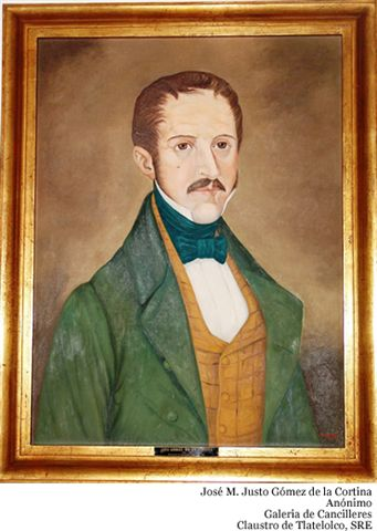 Spanish diplomat, benefactor, scholar, writer and Mexican politician, who founded the Mexican Academy of Language. Secretary of Mexican Treasury in 1938